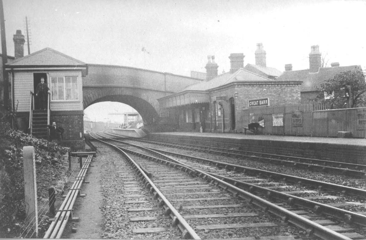 "Looking towards Perry Barr under the arch of the overbridge carrying Old Walsall Road with the original station's down platform on the right. This view must have been taken in late 1898 or early 1899 as the new station opened in 1899 part of which can be seen under construction through archway. It is believed that the original 1862 station was built with staggered platforms, one platform being either side of the bridge with the down platform being opposite the signal cabin. When the new 1889 station was built it was only the new down platform and its associated station buildings which were resited opposite the original up platform."